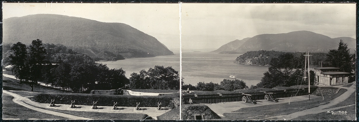 Trophy Point at West Point, looking north in 1909